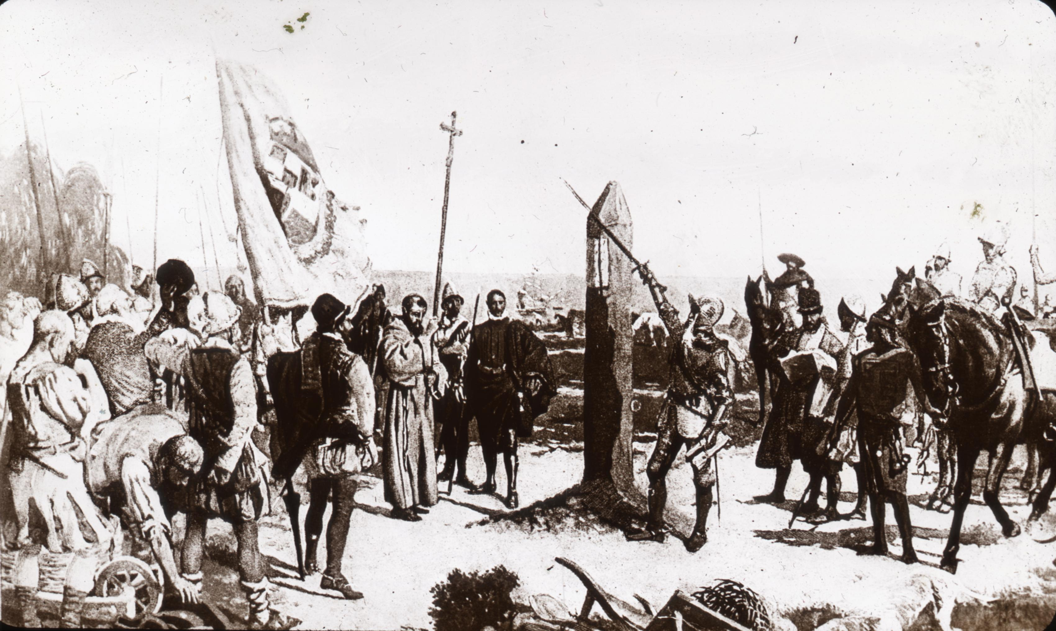 Image Description from historic lecture booklet: "Don Pedro de Mendoza, sent out by Charles V. of Spain, entered the river Plate, February, 1536 and landed on the spot which now constitutes the capital of the Argentine Republic. A township was formed with the name of Santa Maria de Buenos Aires, but this was after-wards destroyed by Indians. the town was reconquered and re-established. Plans were drawn for the demarcation of the limits of the town which the Indians, again essayed to destroy but were unsuccessful in their attempt. the first inhabitants of Buenos Aires were 50 Creoles and 19 Spaniards, and with this second founding of the town the period of conquest in the regions now comprising the Argentine may be said to have finally closes, to be followed by a Colonial regime, which lasted until 1810, when the existing form of Government was proclaimed and established. " Original Collection: Visual Instruction Department Lantern Slides Item Number: P217:set 012 001 You can find this image by searching for the item number by clicking here. Want more? You can find more digital resources online. We're happy for you to share this digital image within the spirit of The Commons; however, certain restrictions on high quality reproductions of the original physical version may apply. To read more about what “no known restrictions” means, please visit the Special Collections & Archives website, or contact staff at the OSU Special Collections & Archives Research Center for details.